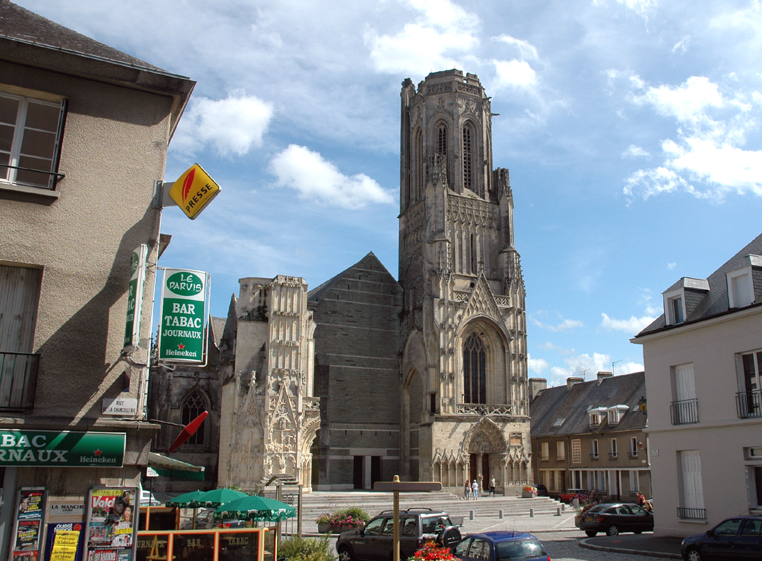 Church of St.-Lo in 2011